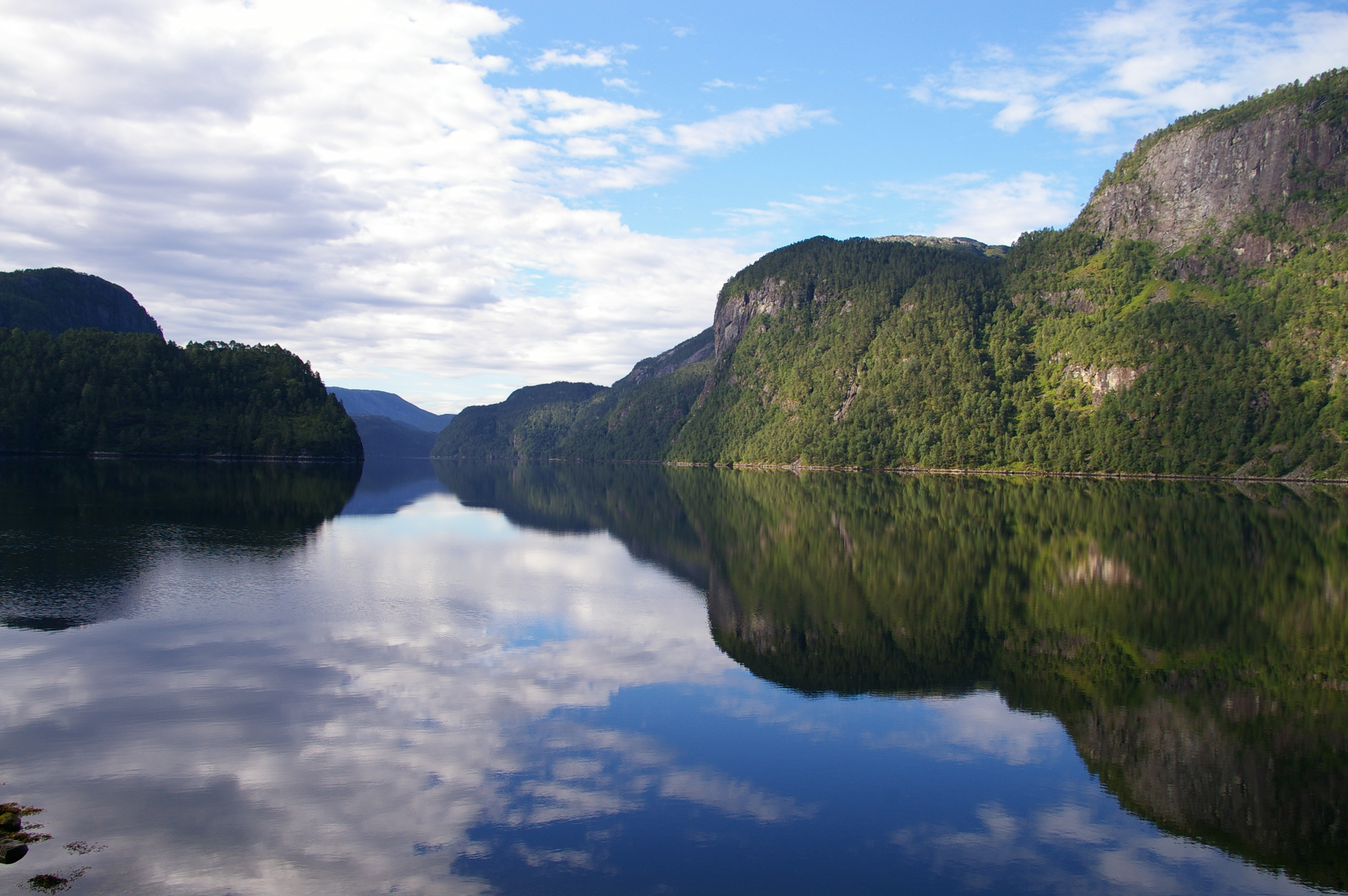 Indre Osterfjorden, north of Osterøy in Hordaland, Norway.